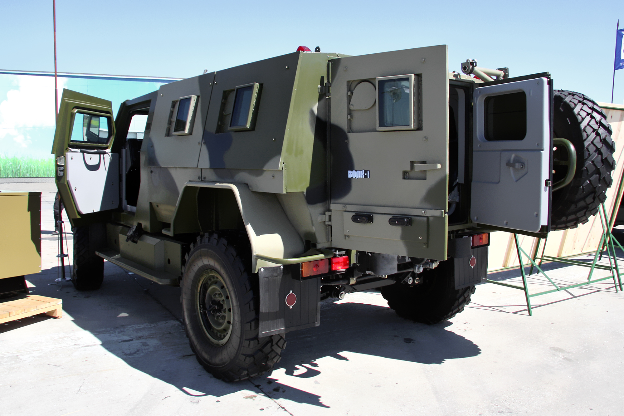 First presentation of VPK-3927 Volk family armored vehicles during Forum "Engineering Technologies 2010" (IDELF-2010)